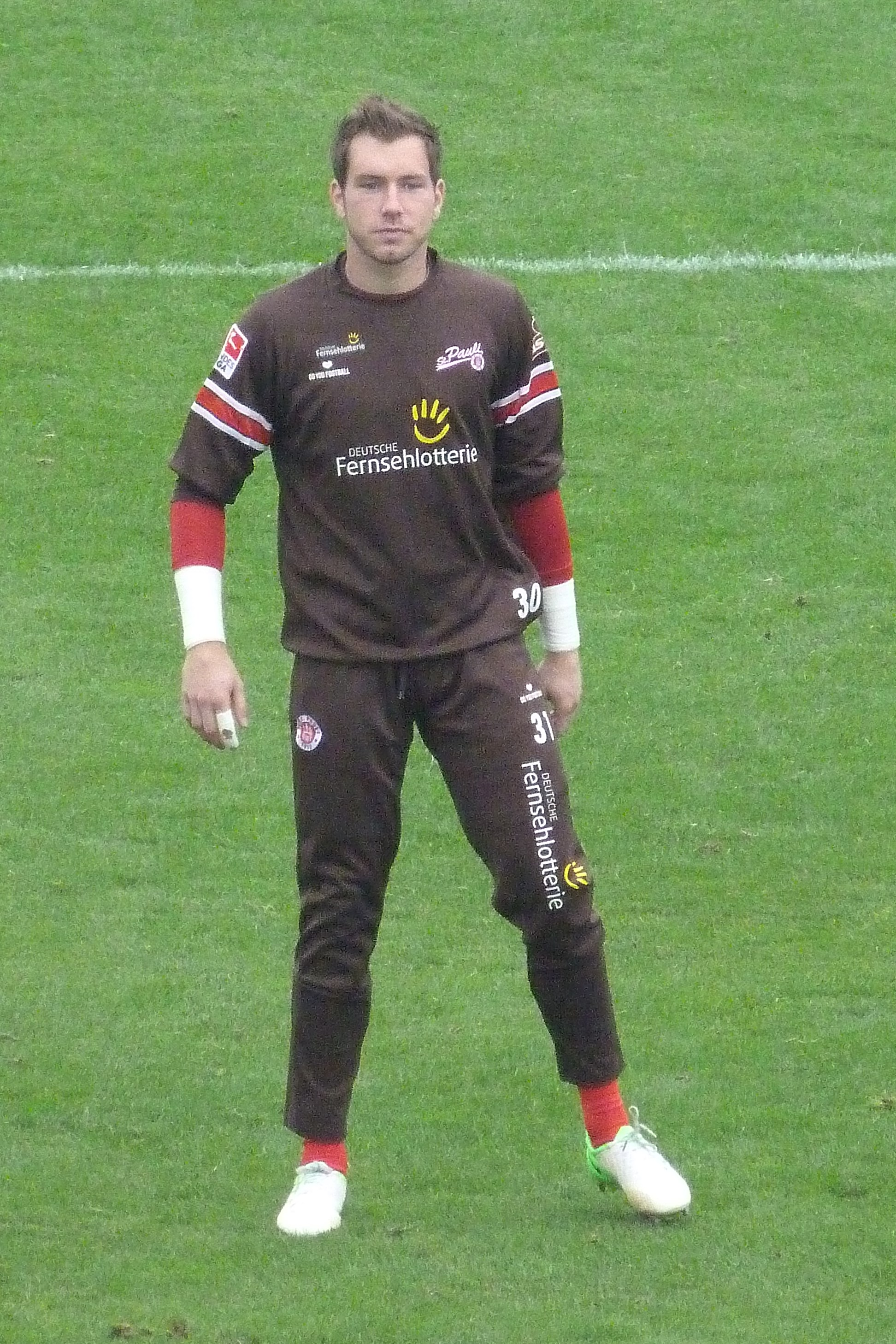 Robin Himmelmann as Player of FC St.Pauli